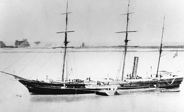 CSS McRae in New Orleans, 1861. Former Mexican naval vessel, the Marquis de la Habana seized as a pirate in 1860. Refitted as a 830 ton steam sloop for commerce raiding, armed with one 9 inch pivot gun and six 32 pounders, by Naval Secretary Stephen Mallory.